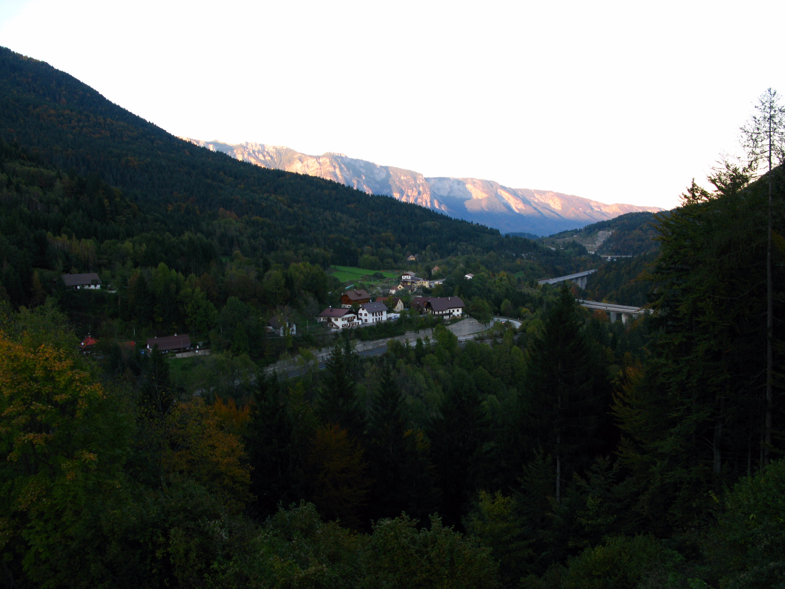 Coccau di Sotto in the community Tarvisio in Friuli-Venezia Giulia / Italy / EU. It's the latest italian village before the border to Austria.